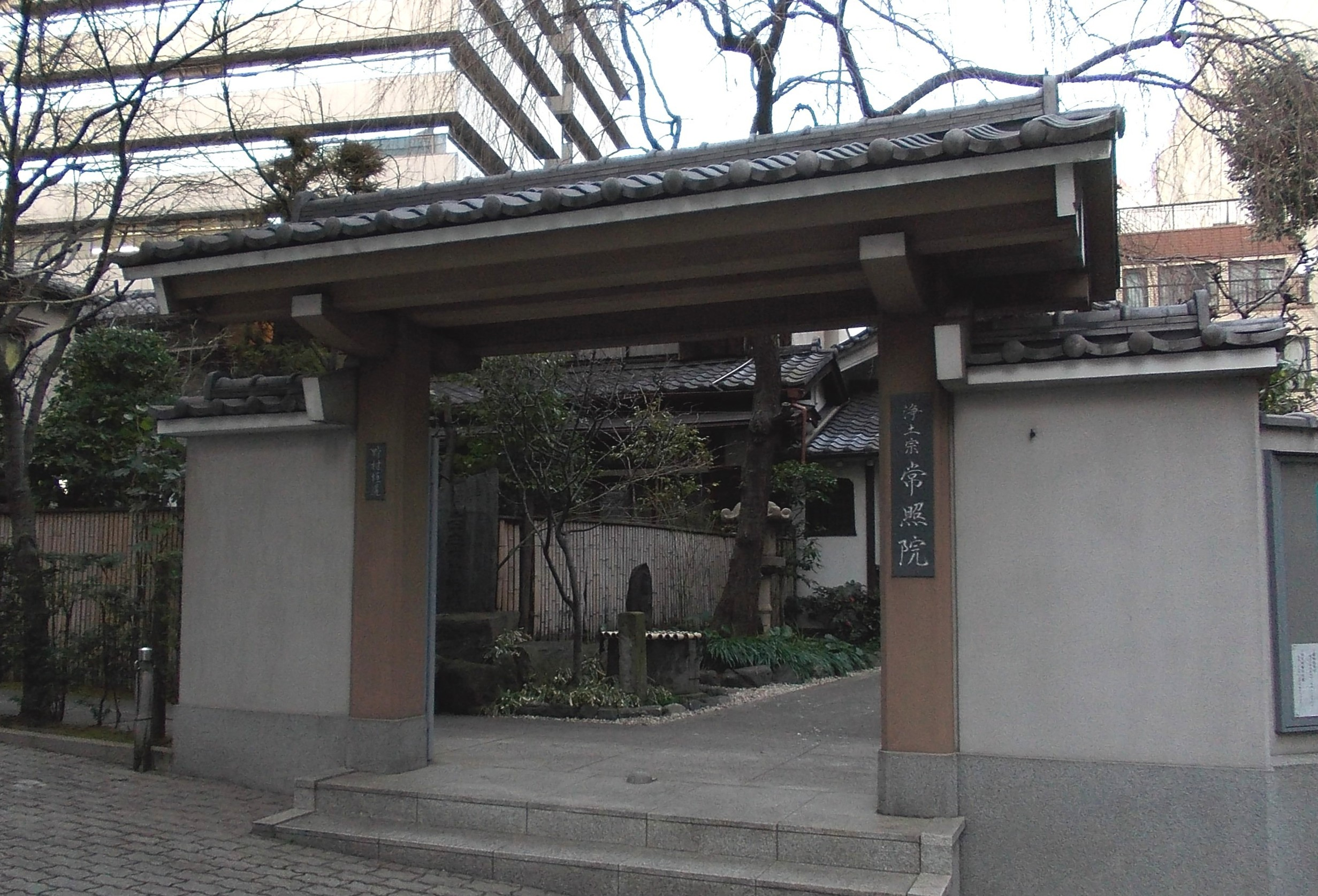 Josho-in Temple in Minato, Tokyo, Japan